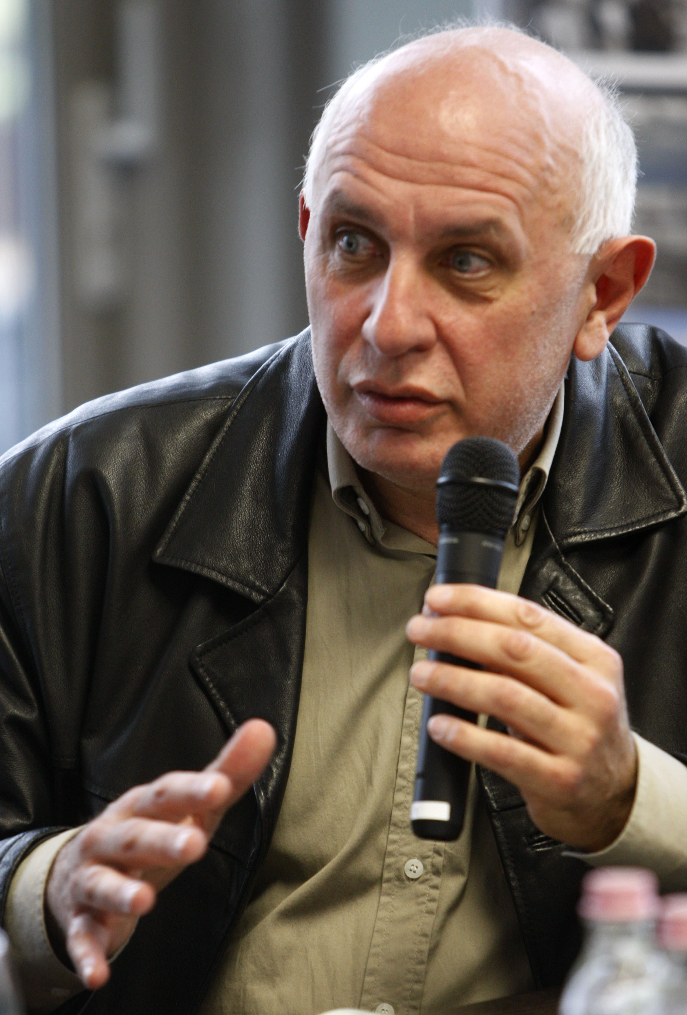 Budapest, 2011.04.15. Európa Pont „Migránsok és emigránsok, bevándorlók és expatok, autokton és allokton írók” – Az európai irodalom meszticizálódásaJean Portante, , Németh Gábor,Alexandra Samela, Helen Cross, Bán Zsófia, Care Azzopardi, Sabrine Fabbri, Jean-Michel Guenassia. A képen: Jean-Michel GuenassiaFotó: Európai Bizottság/Dudás Szabolcs